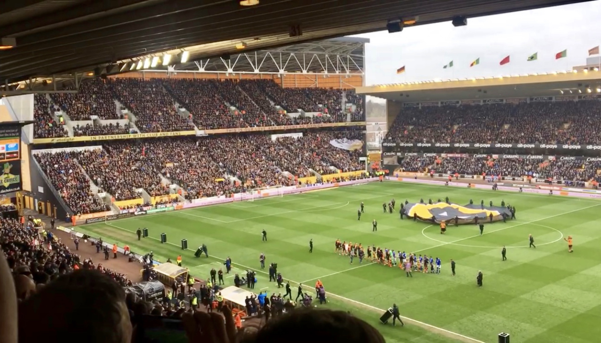 Photograph of Wolverhampton Wanderers Stadium